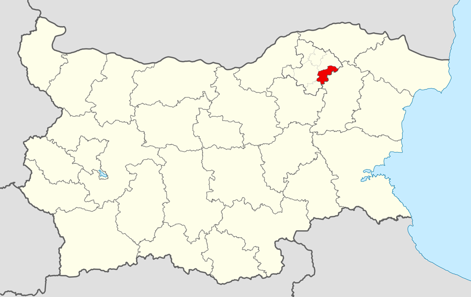 Location map of Samuil Municipality within Bulgaria and Razgrad Province. Equirectangular projection, N/S stretching 130 %. Geographic limits of the map: N: 44.4° N S: 41.1° N W: 22.1° E E: 28.9° E